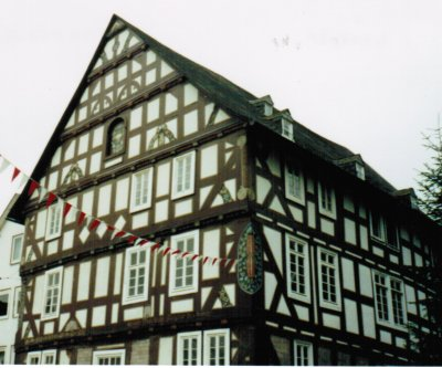 Stolzes house in Laasphe, built by Mannus Riedesel. Photo by Paul Riedesel.